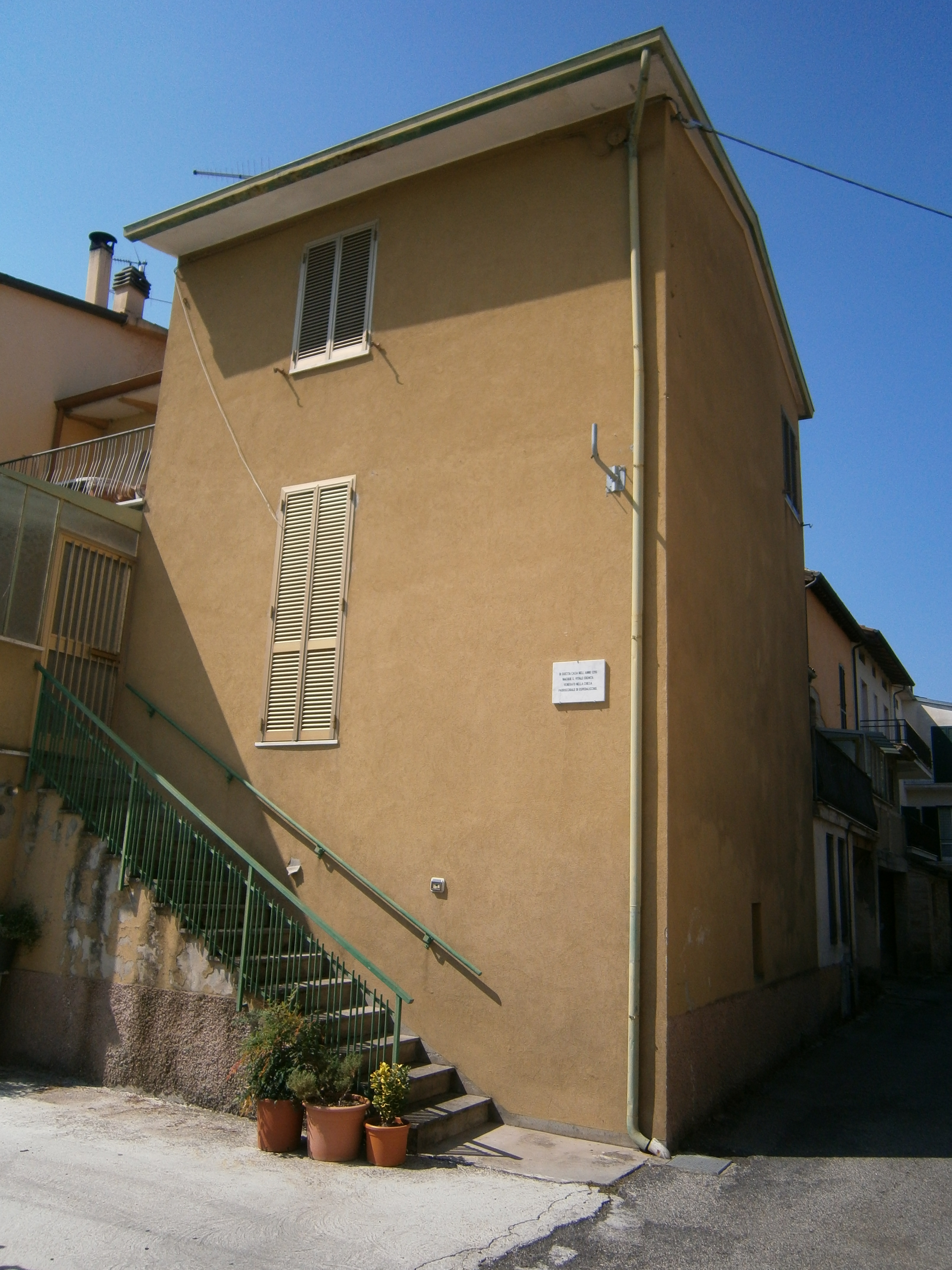 Ospedalicchio Castle, Northeast Tower, the birthplace of San Vitale